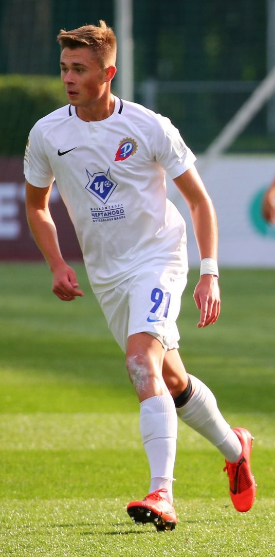 Dmitri Tsypchenko with FC Chertanovo Moscow in a game against FC Yenisey Krasnoyarsk.